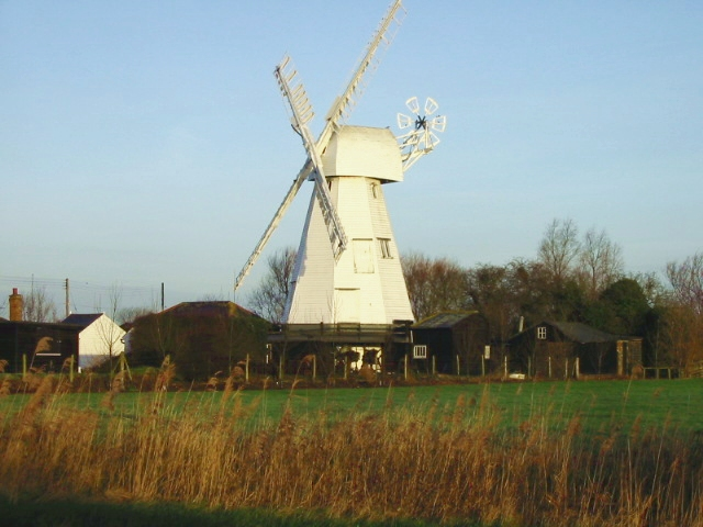 Photograph of the White Mill, Sandwich